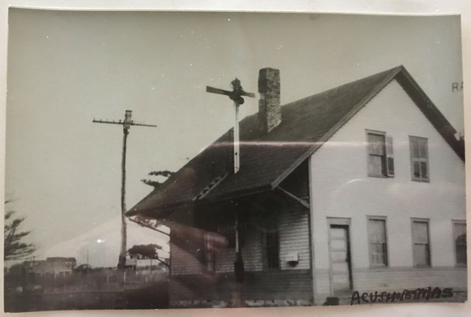 Acushnet station on a postcard published in the 1980s